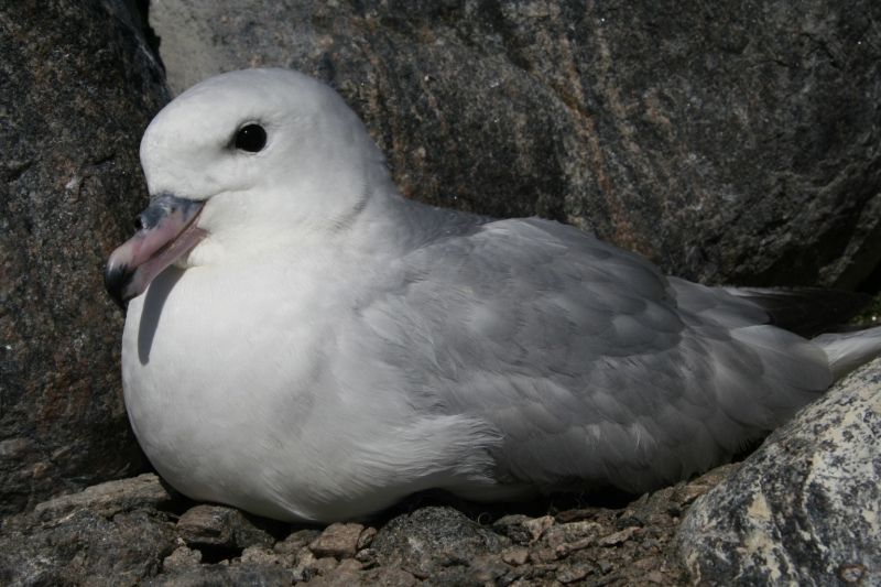 Southern Fulmar